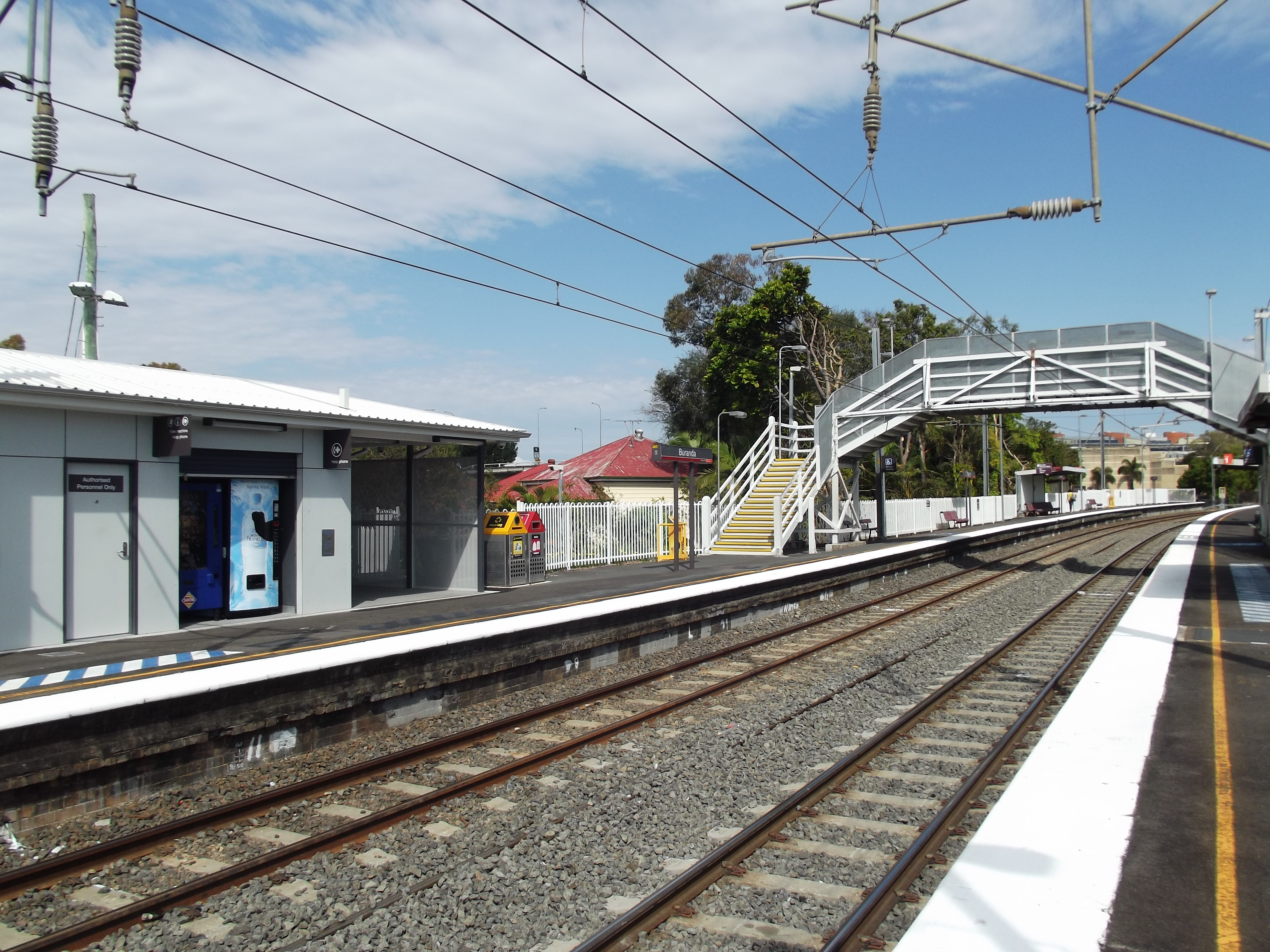 Buranda station, on the Cleveland line.